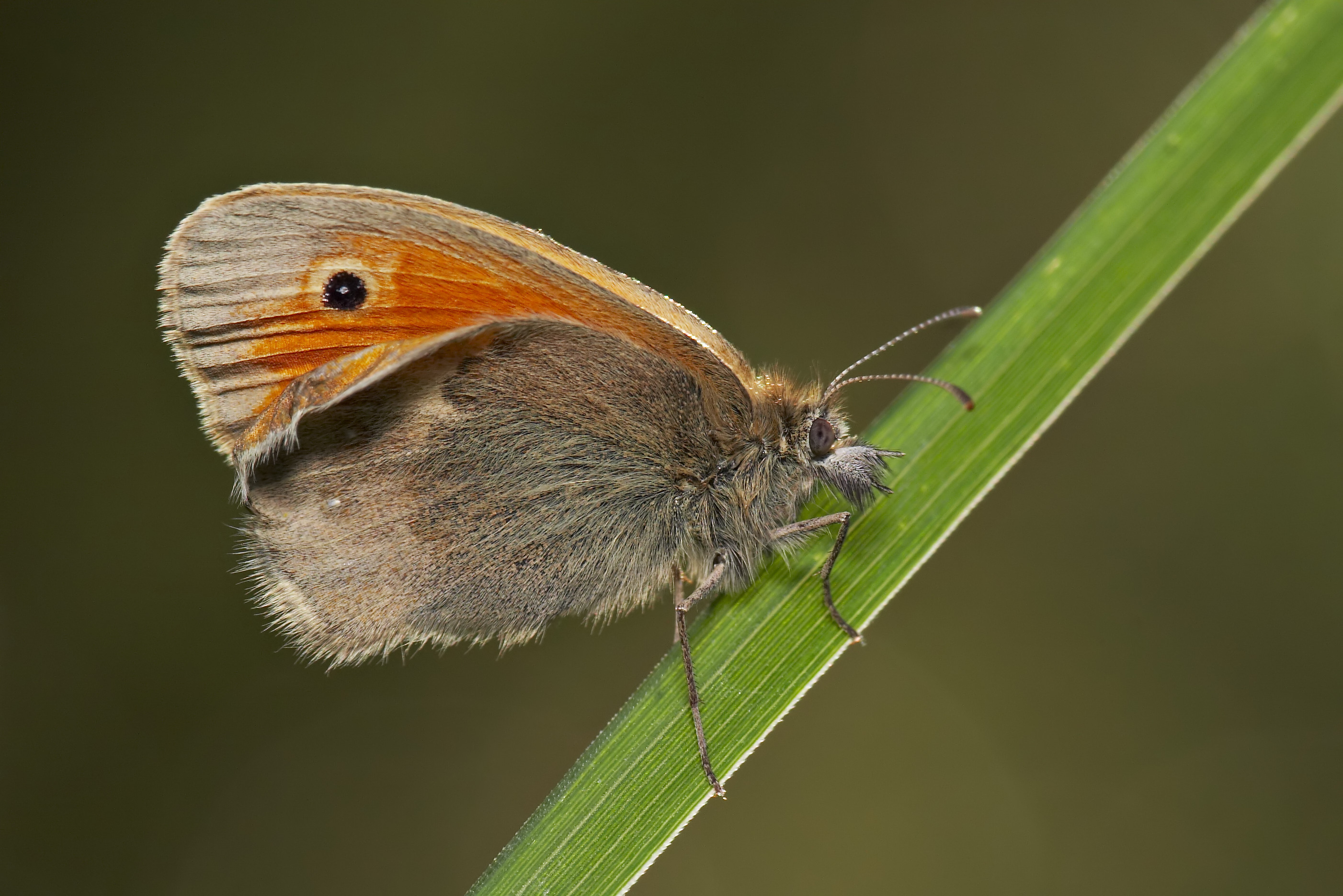 Coenonympha pamphilus